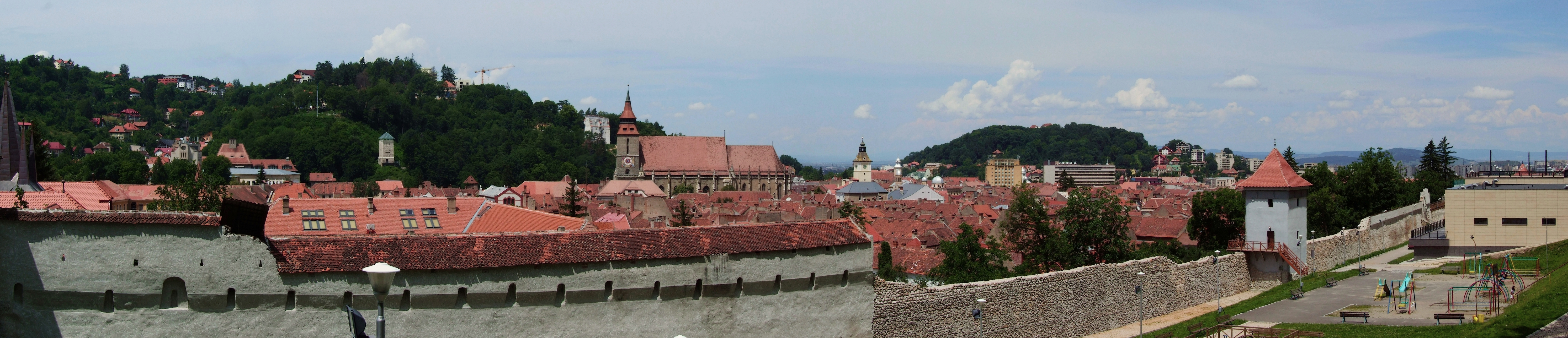 Braşov - panorama